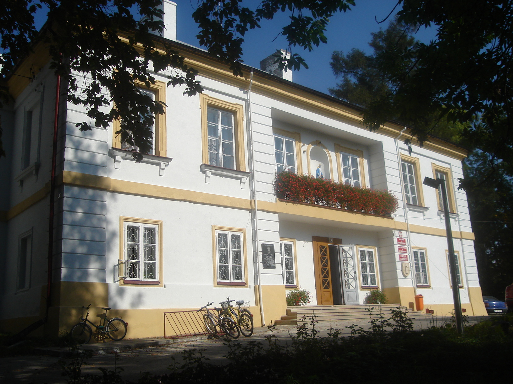 A manor house in Słupia Jędrzejowska, Poland.